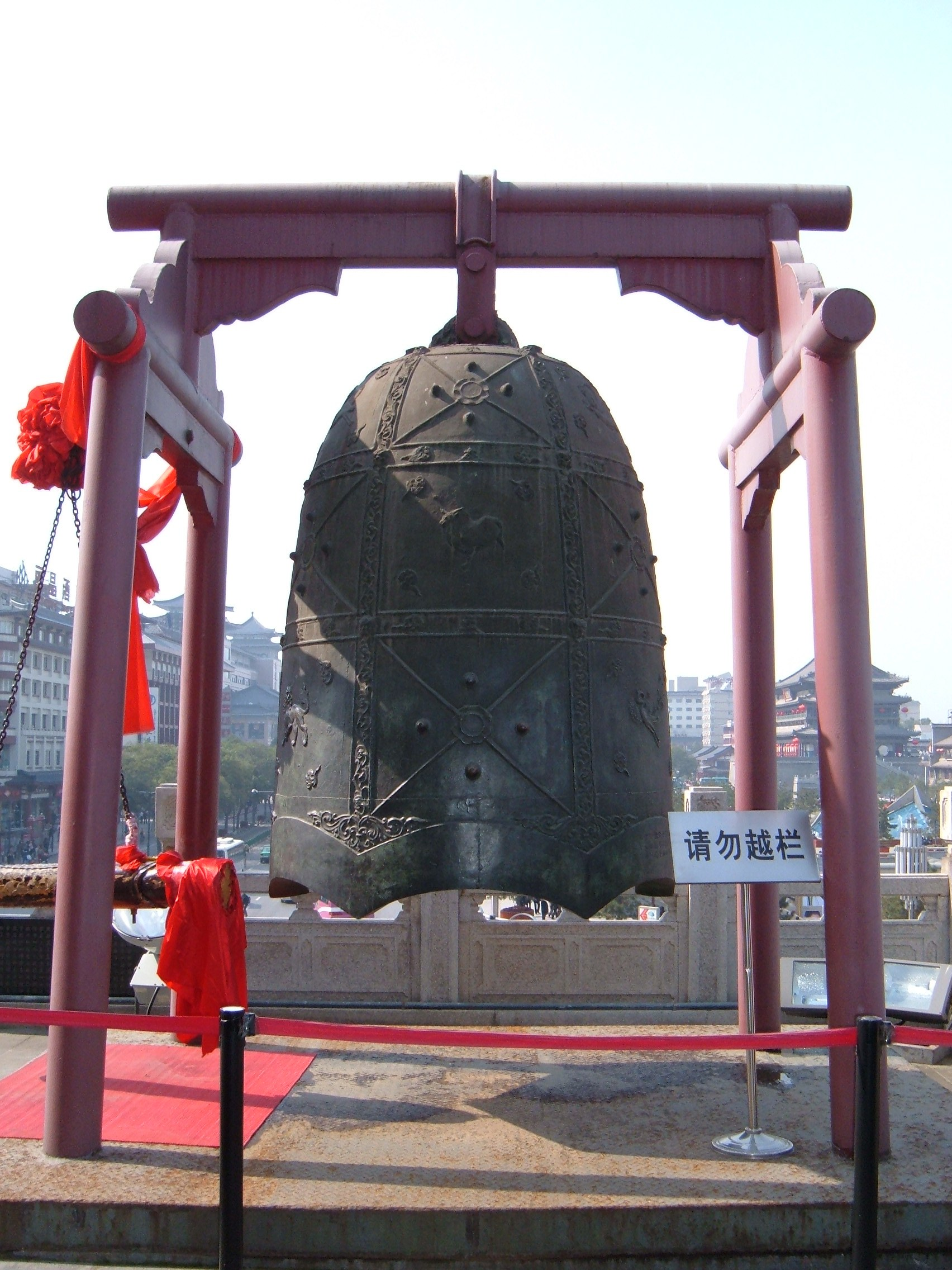 The Jingyun Bell, cast in 711 during the Tang Dynasty. 247 cm high and 6,500 kg. On display at the Xi'an Bell Tower in Xi'an, PRC. Tourists can ring the bell for a fee.